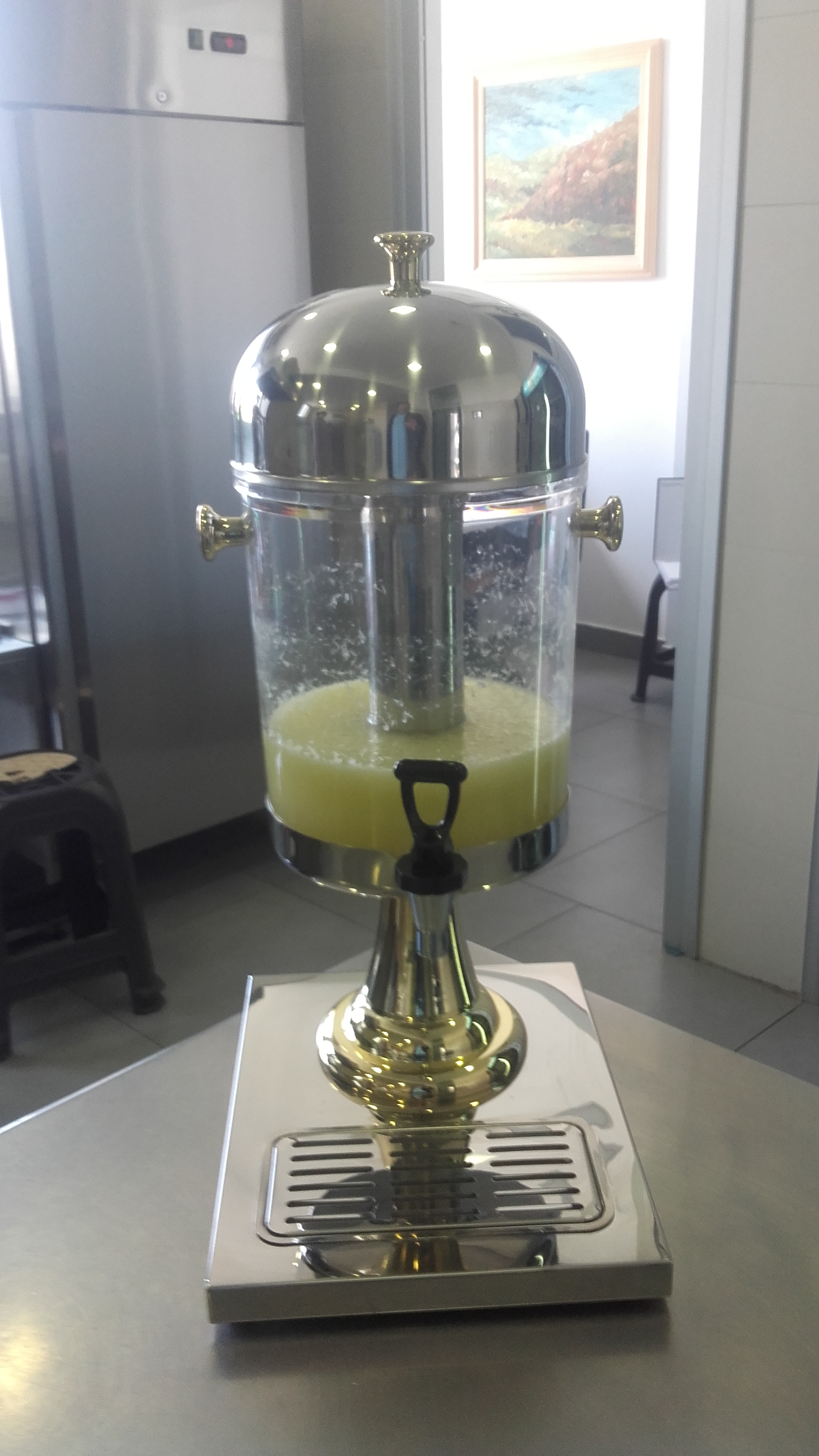 Lemonade drew